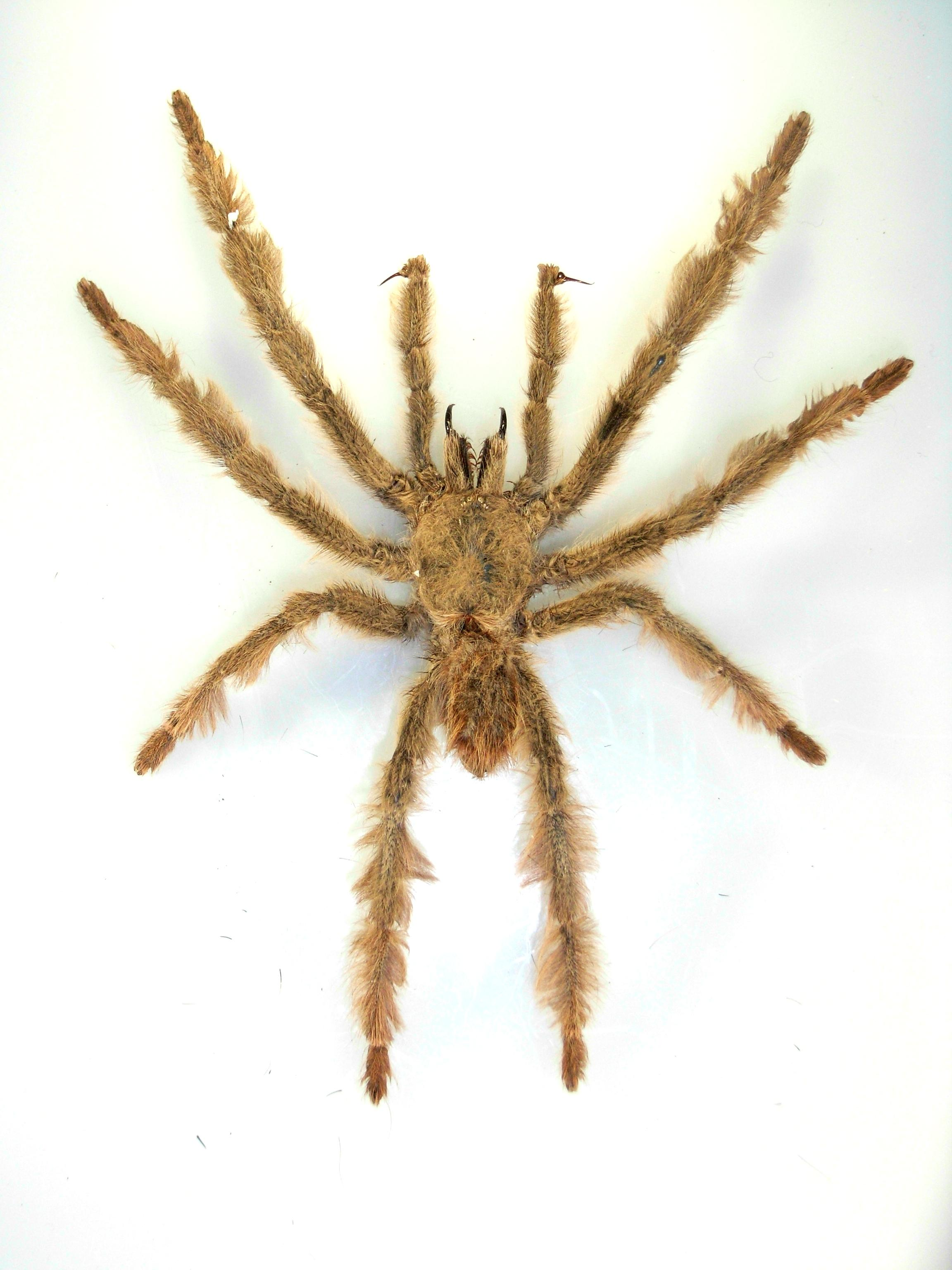 Tapinauchenius elenae Ecuador Male